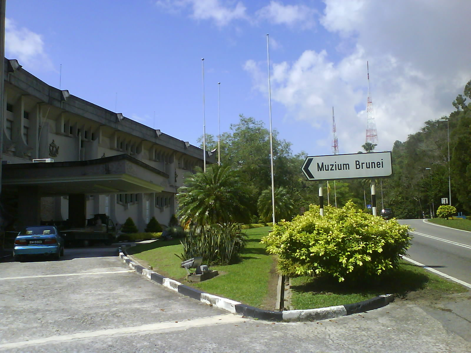 Brunei Museum, Kota Batu, Bandar Seri Begawan, Brunei.